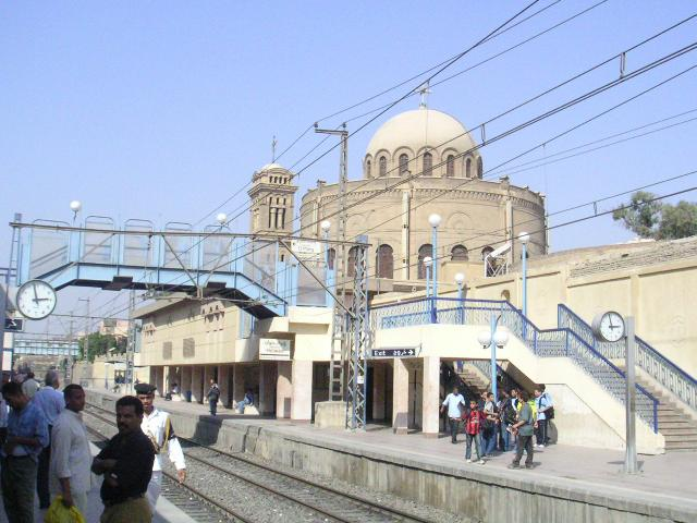 Cairo Metro. Mar Girgis station, line 1.